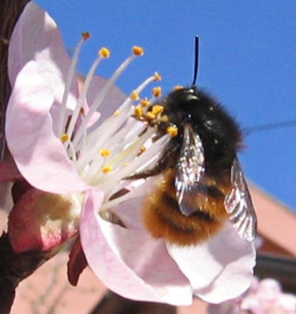 Description: Bastensko cvece Source: self-made